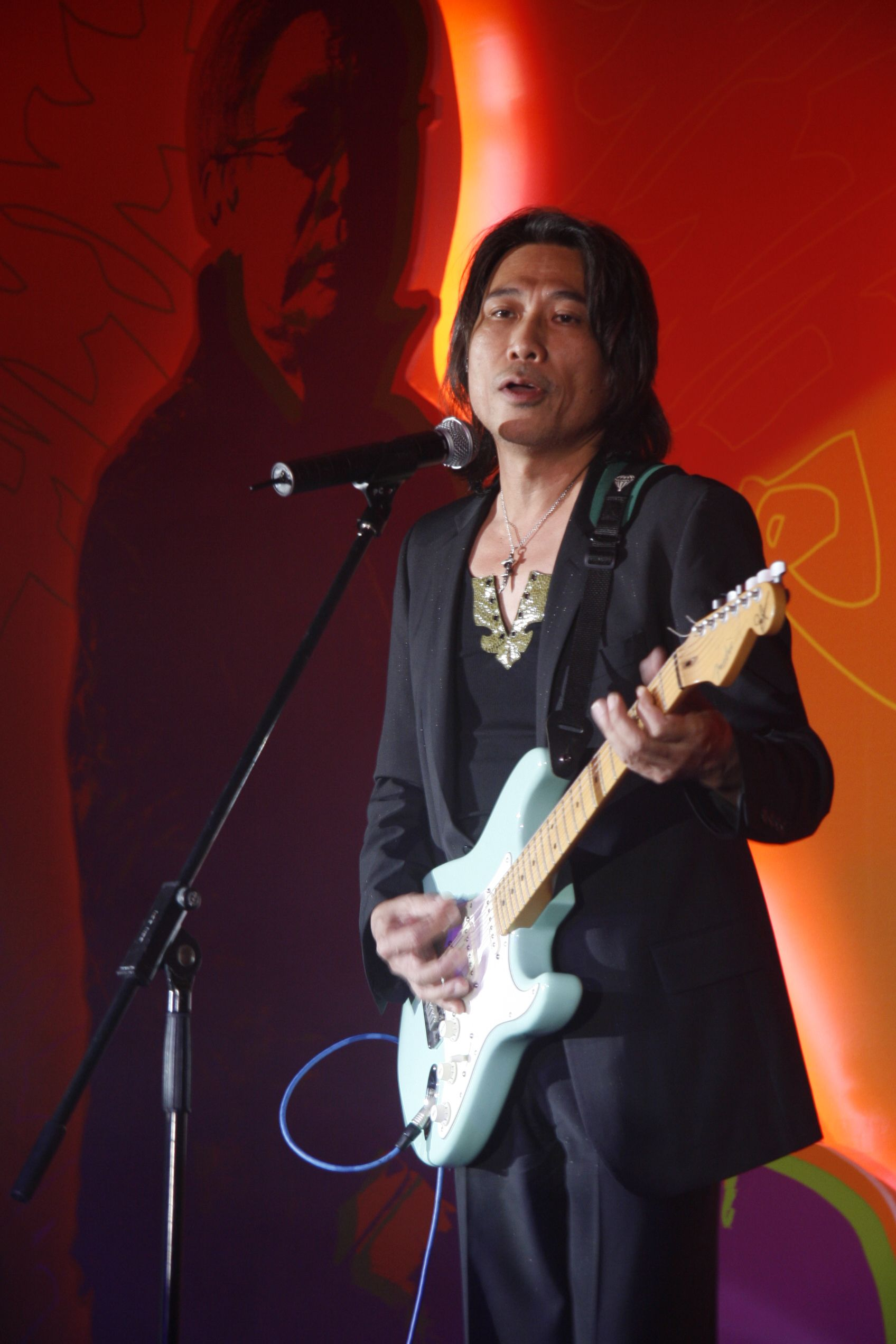 Danny Summer